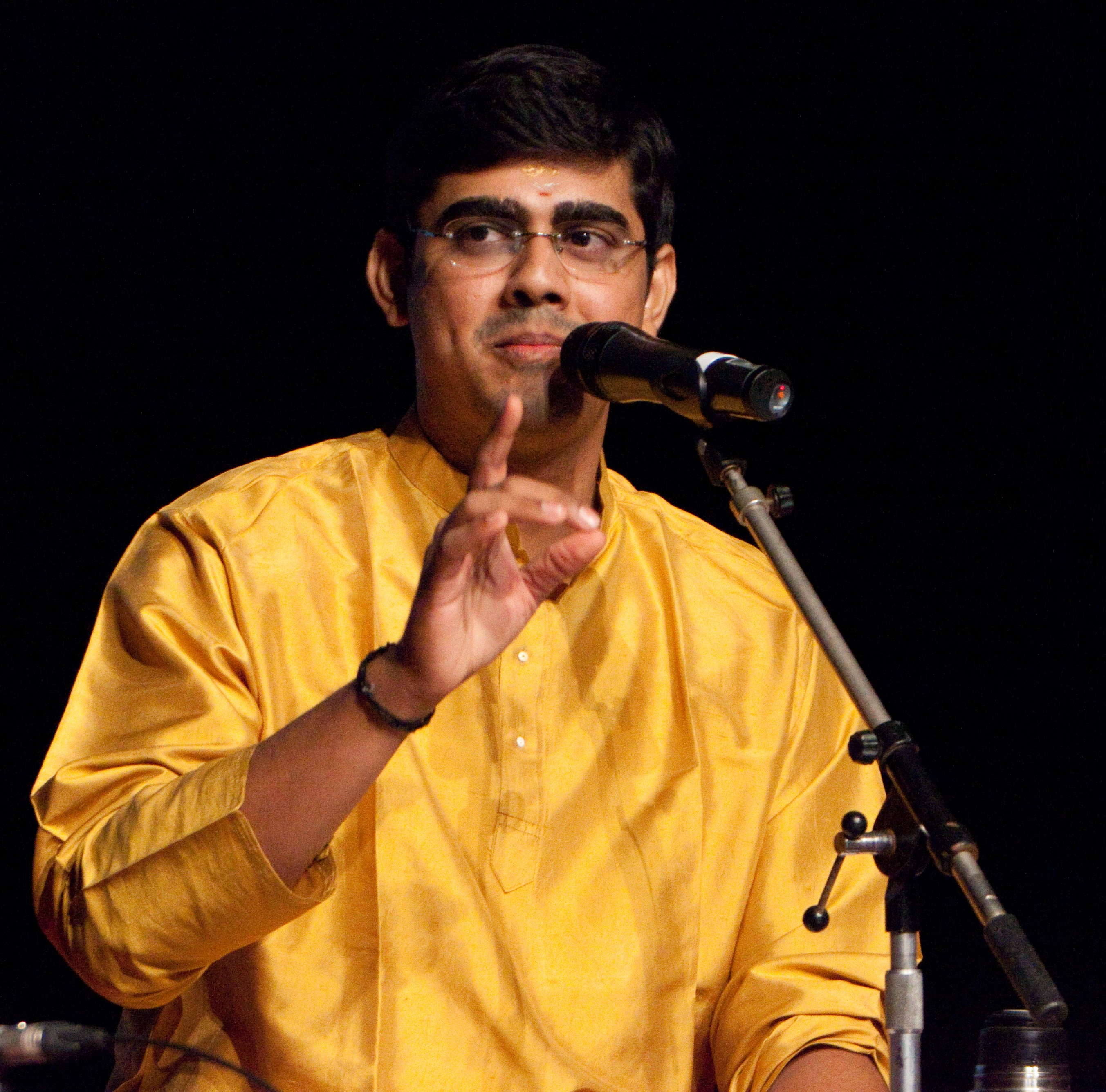 Sikkil Gurucharan in Concert